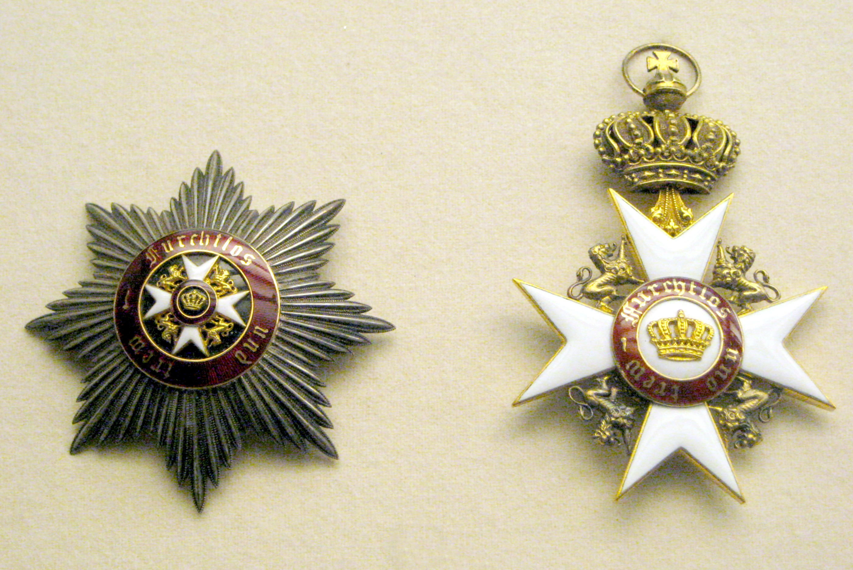 The star and badge of the Order of the Crown (Württemberg). Mid 19 c.